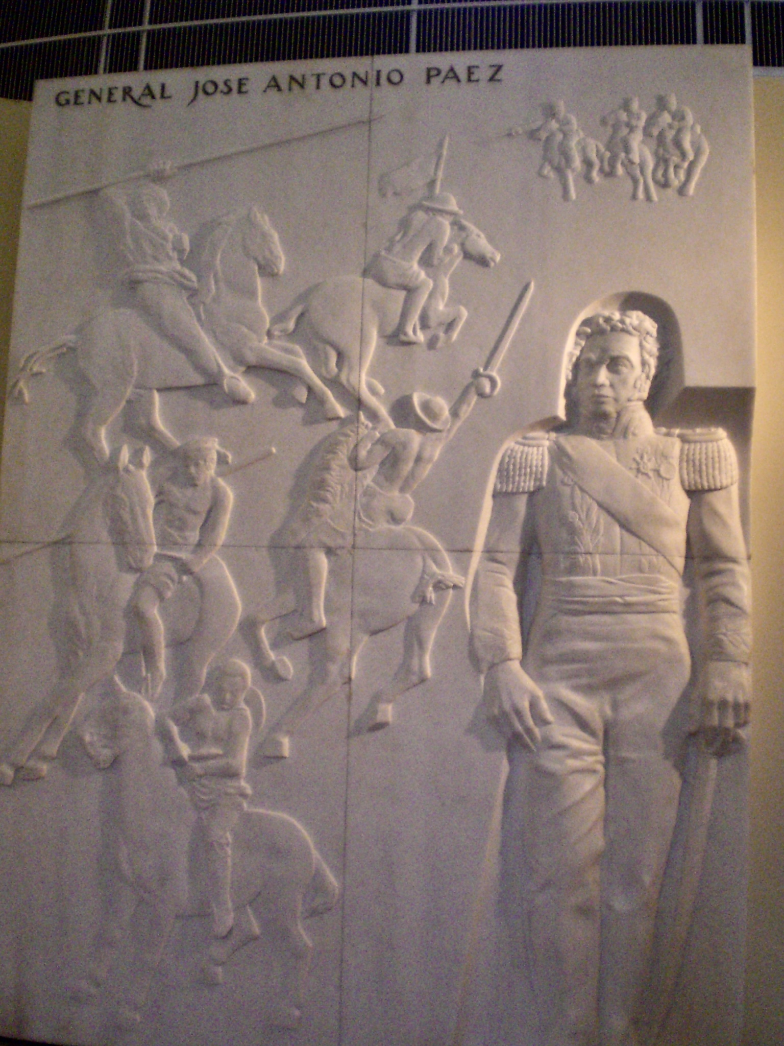 Sculpture of José Antonio Páez at the National Pantheon.